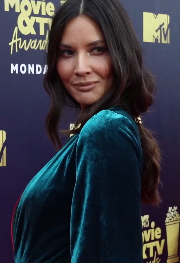 Olivia Munn at 2018 MTV Movie & TV Awards